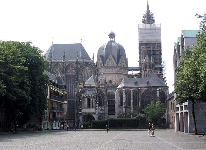 Cathedral of Aachen